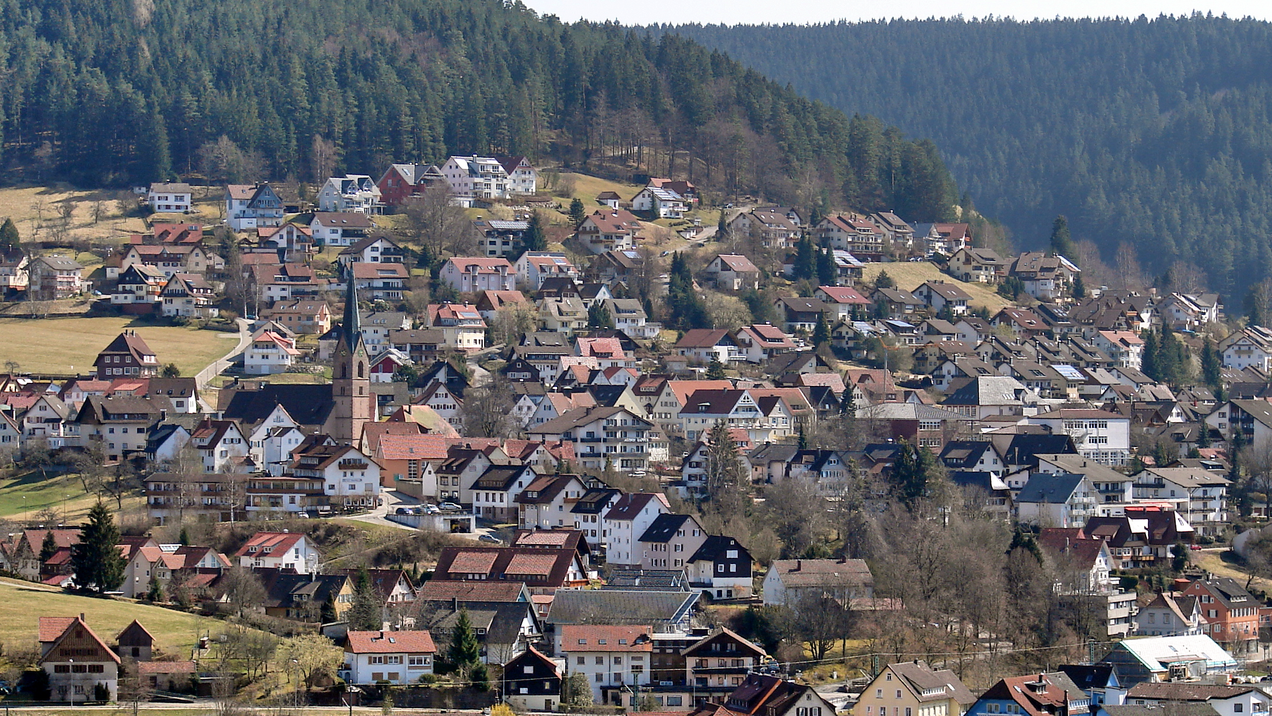 Baiersbronn, Oberdorf